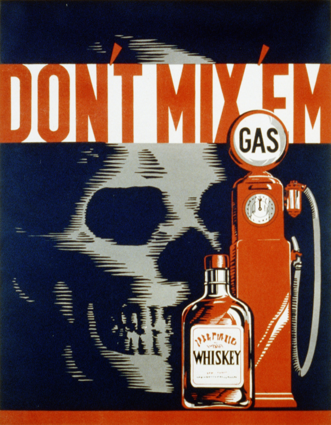 Drunk driving safety poster. "Don't mix 'em".